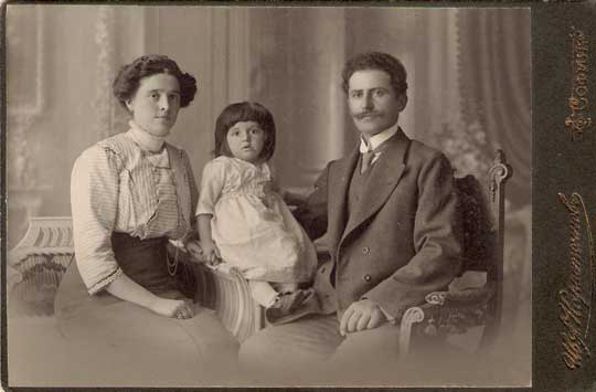 Portrait of Vasil Chekalarov (bulgarian revolutionary from IMARO) with his family